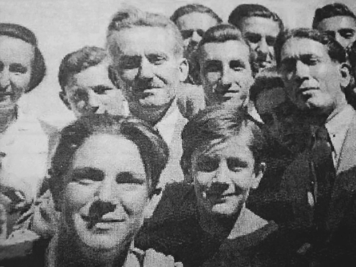 Dimitrije Ljotić with the student wing of Zbor, White Eagles. Српски (ћирилица): Димитрије Љотић са младим огранаком Збора, Белим орловима.